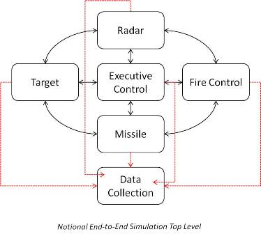 Notional Simulation Graphic